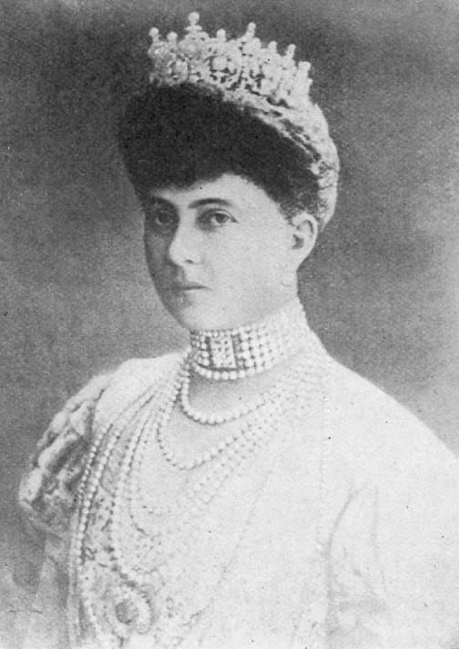 Portrait of Sophia of Prussia (1870-1932), Queen of Greece